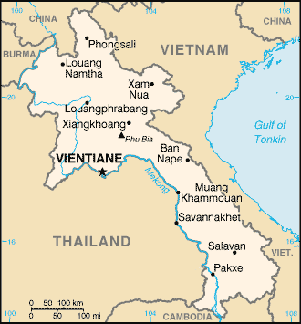 Map of Laos showing major cities.